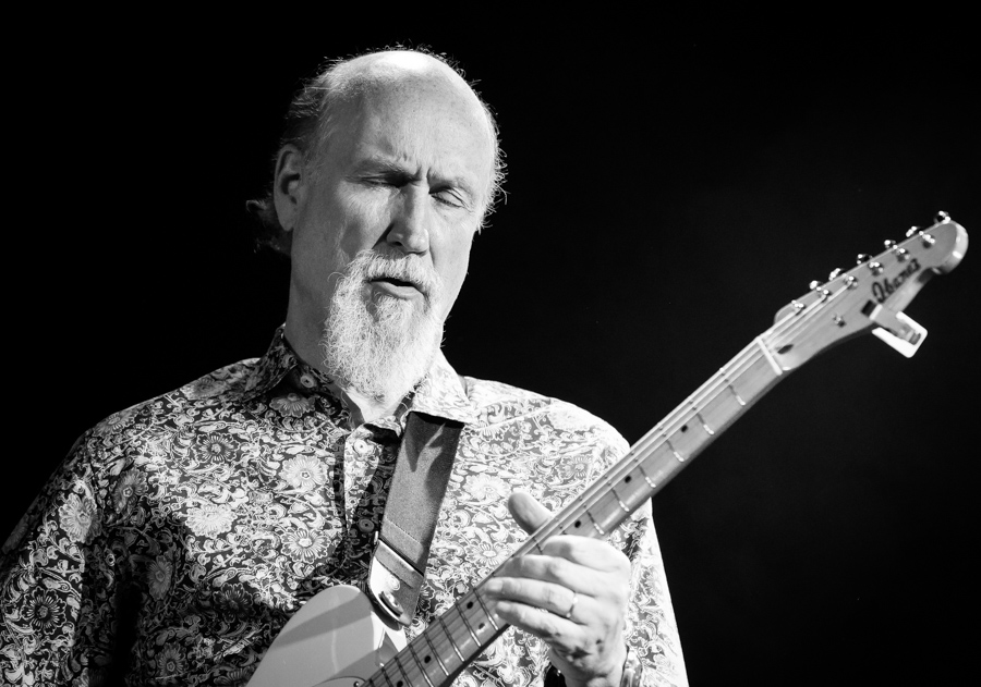 John Scofield at the stage of Energimølla. The concert was part of Kongsberg Jazzfestival and took place on 06. July 2017. Lineup: John Scofield (guitar) Dennis Chambers (drums) Avi Bortnick (guitar) Andy Hess (bass guitar)